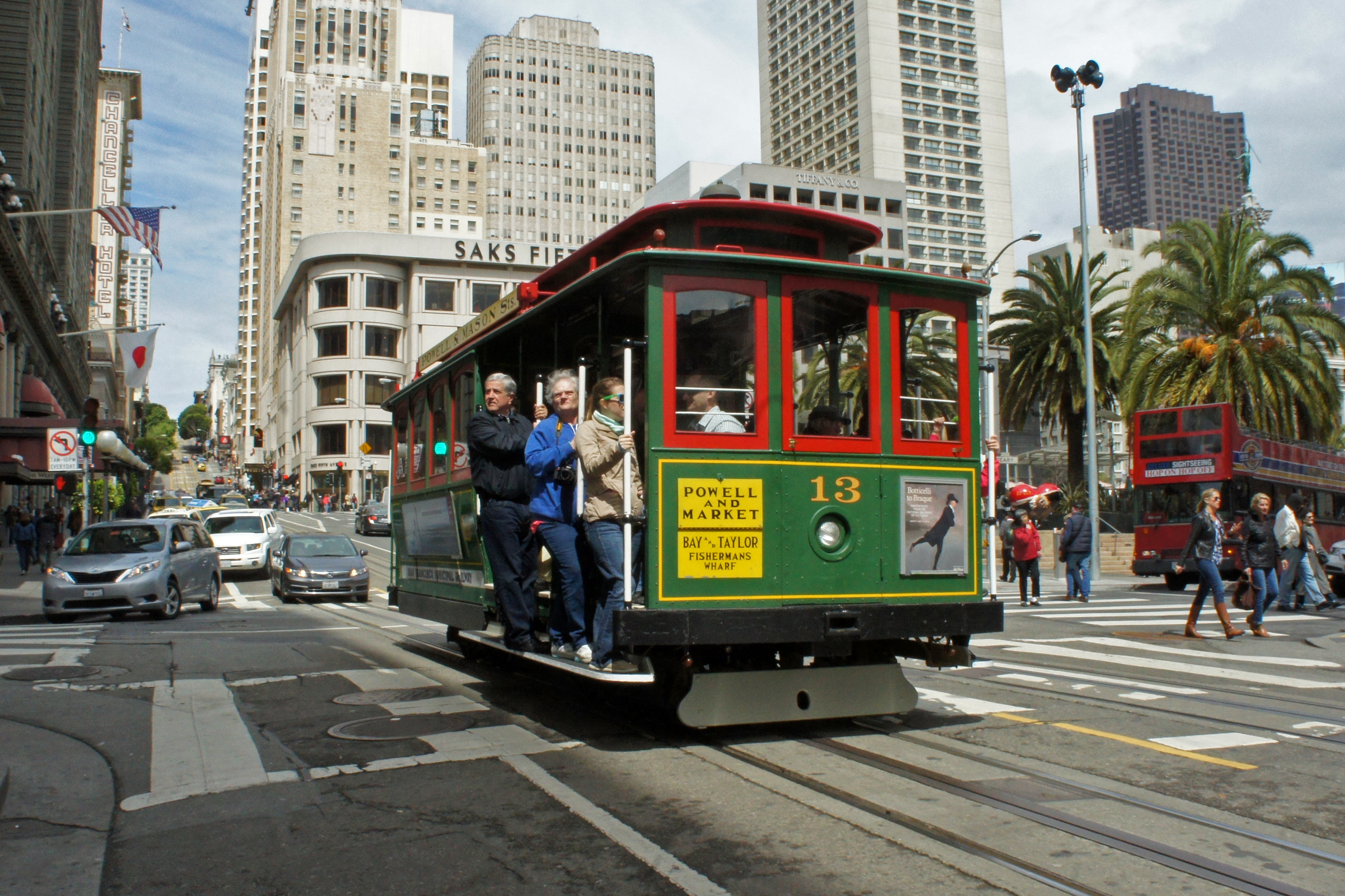 Cable car, San Francisco, California